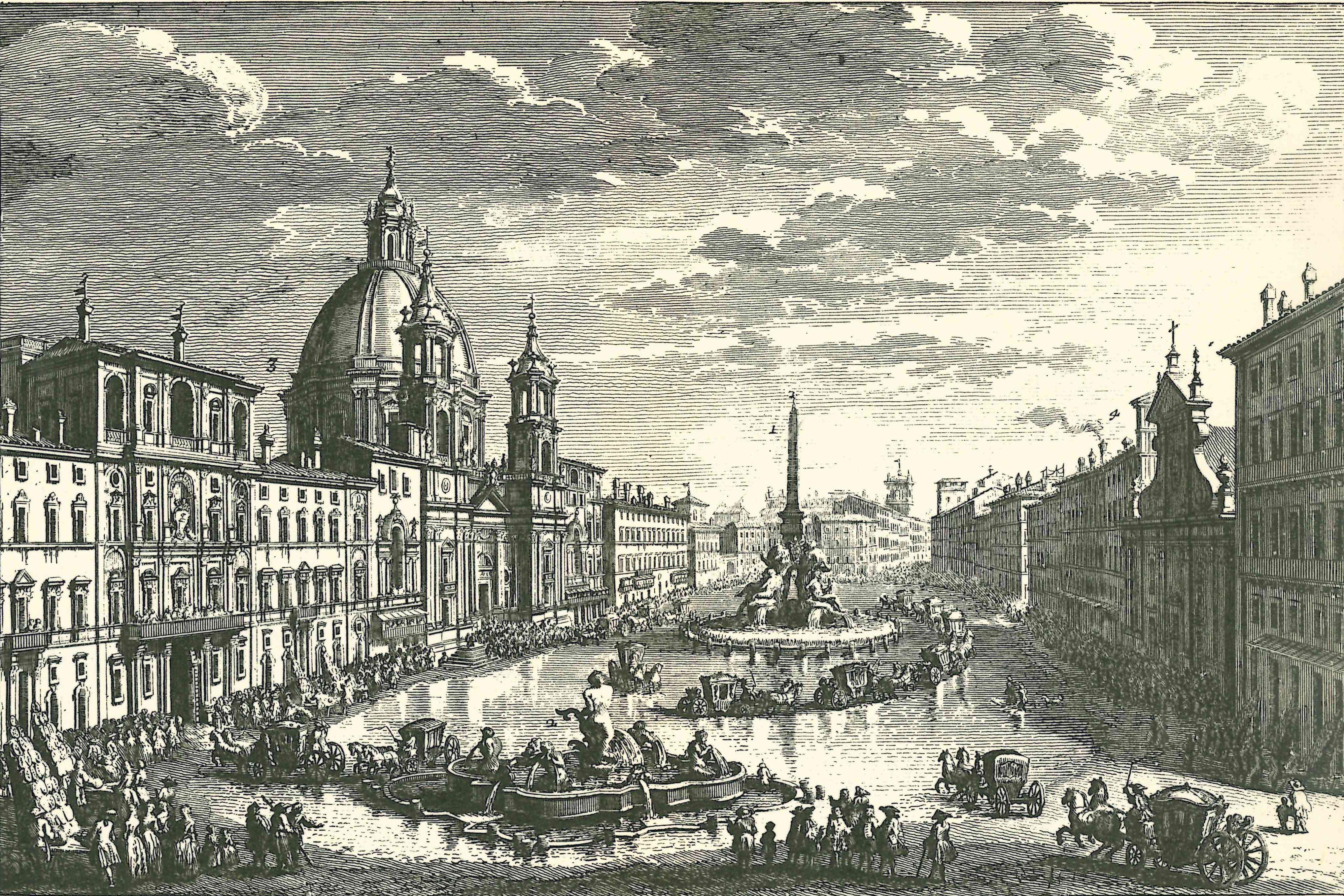 Frontispiece from Delle magnificenze di Roma antica e modern, Roma: 1747, by Giuseppe Vasi (1710-1782). Caption: "Piazza Navona allagata solito farsi nelle Feste di Agosto." Ital 4300.3*, Houghton Library, Harvard University